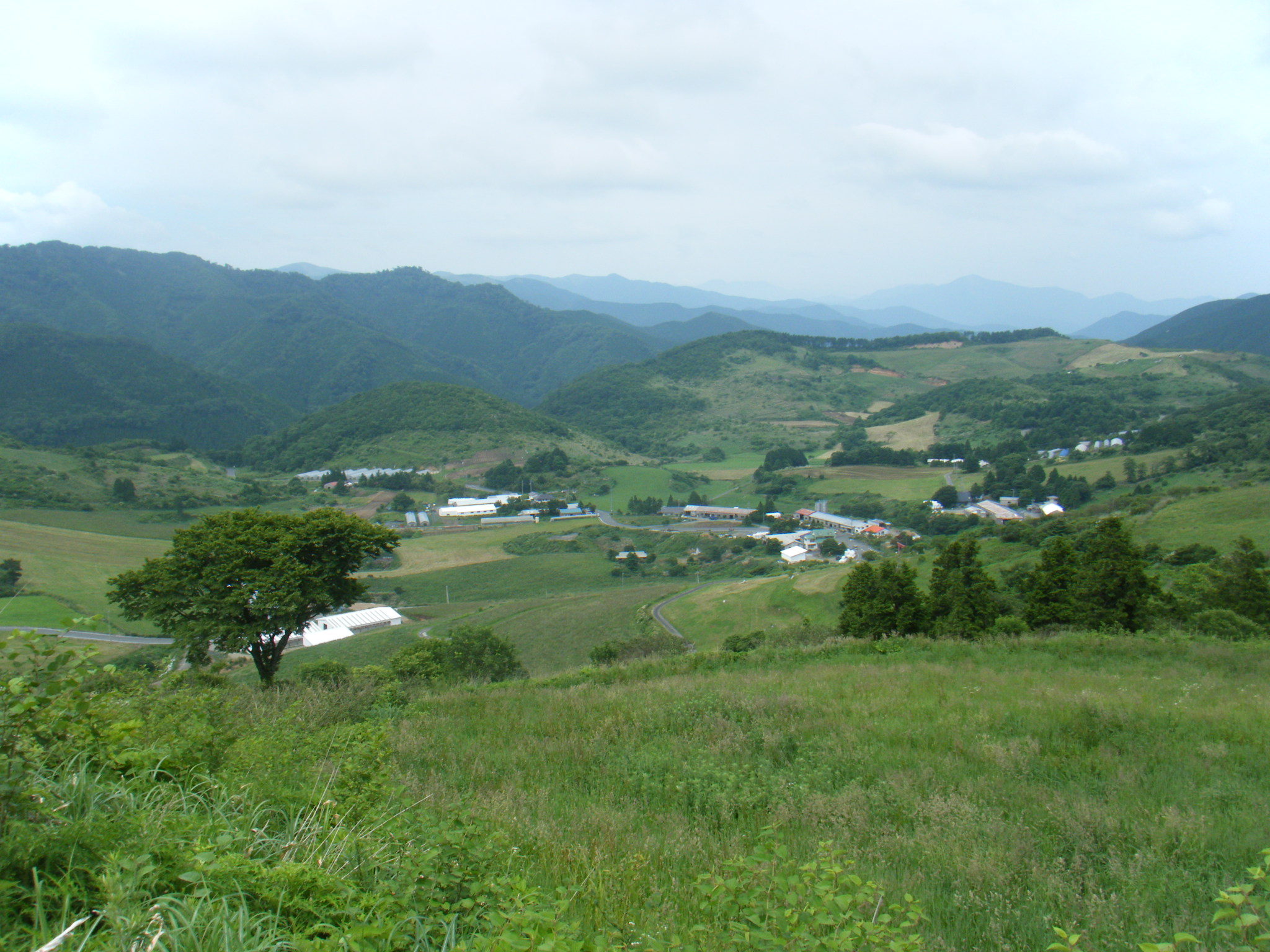 Onogahara plateau in Iyo, Ehime Prefecture, Japan.